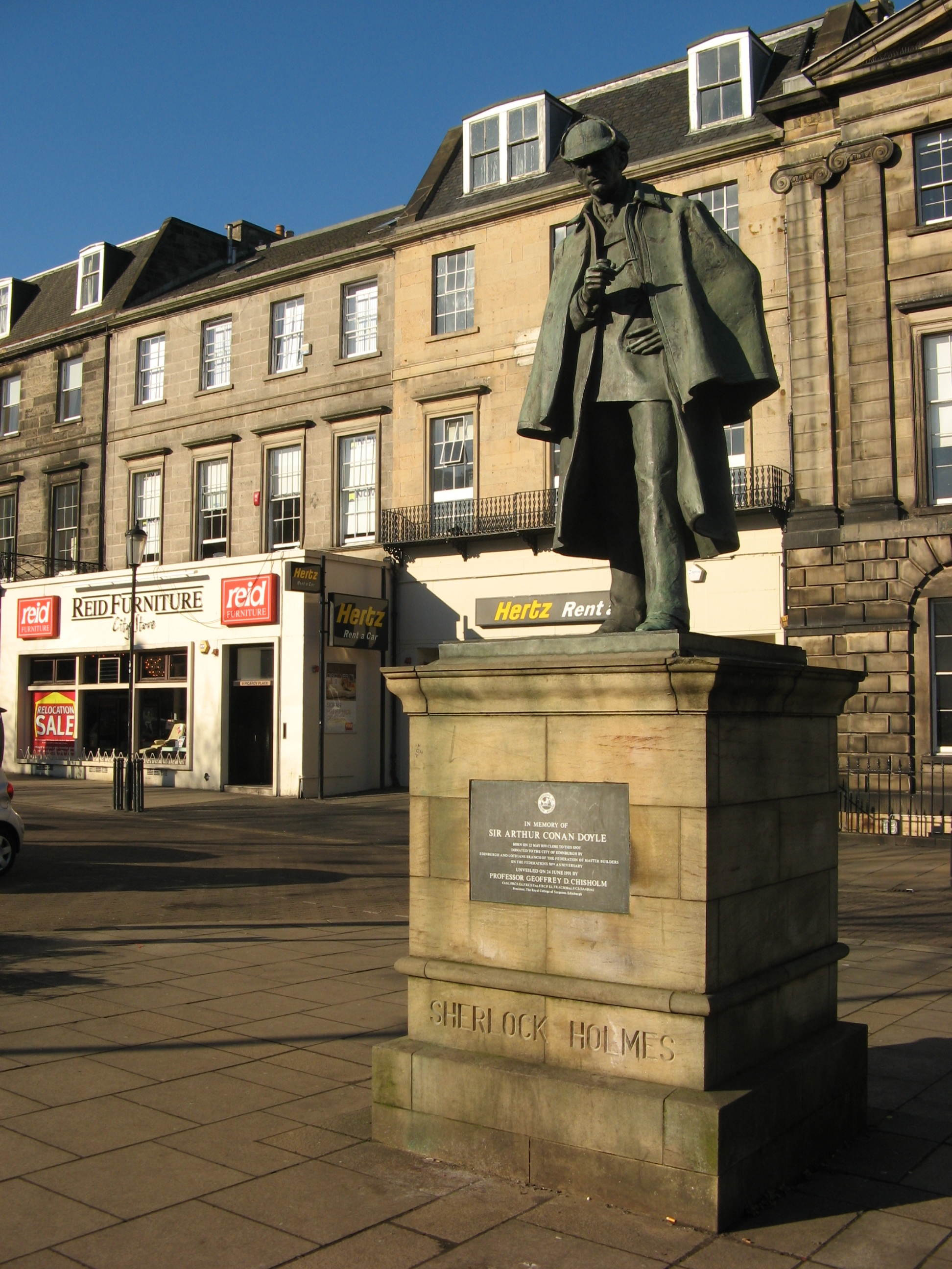 Sherlock Holmes statue, Picardy Place, Edinburgh, close to the birth place of Sir Arthur Conan Doyle